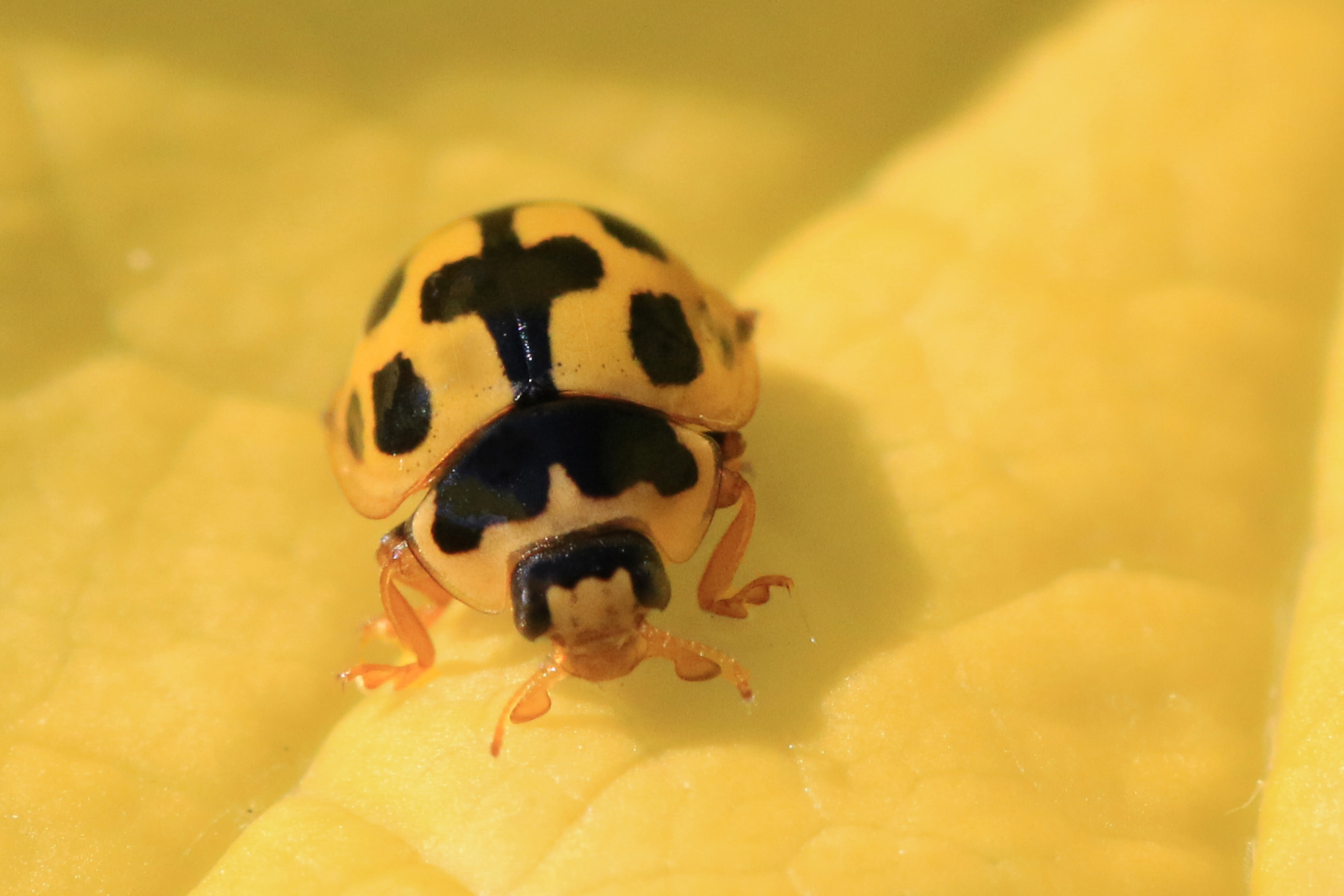 14-spot ladybird (Propylea quatuordecimpunctata), Cumnor Hill, Oxfordshire